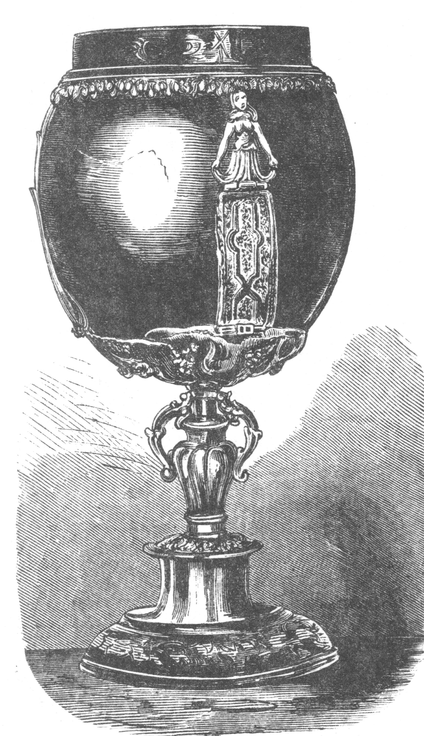 Sacrifice cup from Anacharsis, the scythian. Csíkszentmihályi Sándor family, Székely Land. Coconut body in silver coating. Carving on itː Petrus Sandor 1412. According to family tradition from Anacharsis, the scythian (Once belonged to Radagaisus (died 23 August 406, gothic king). Republishedː